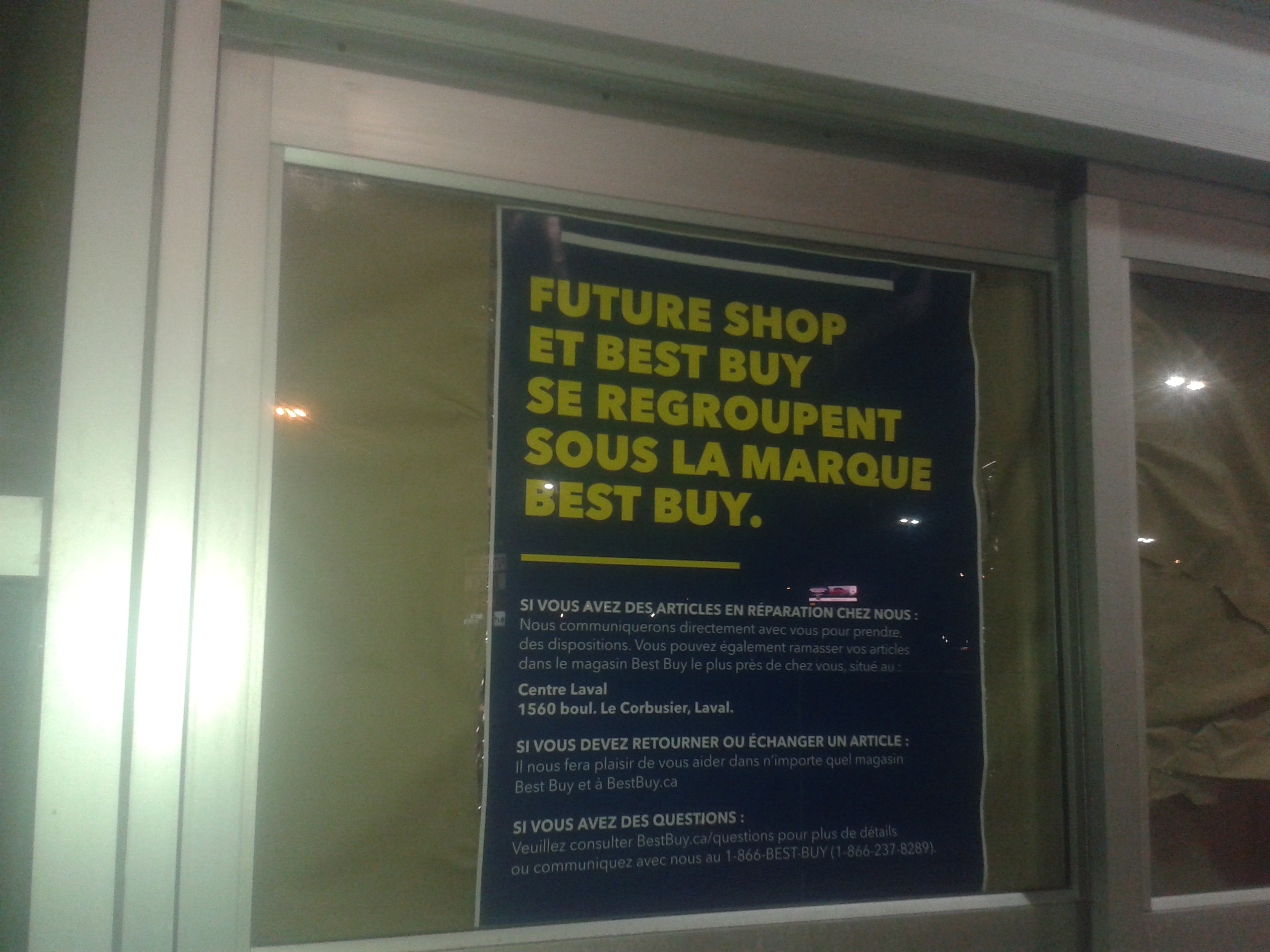 Closing notice of former Future Shop inside the Centre Laval mall photographed in Laval, Quebec, Canada.